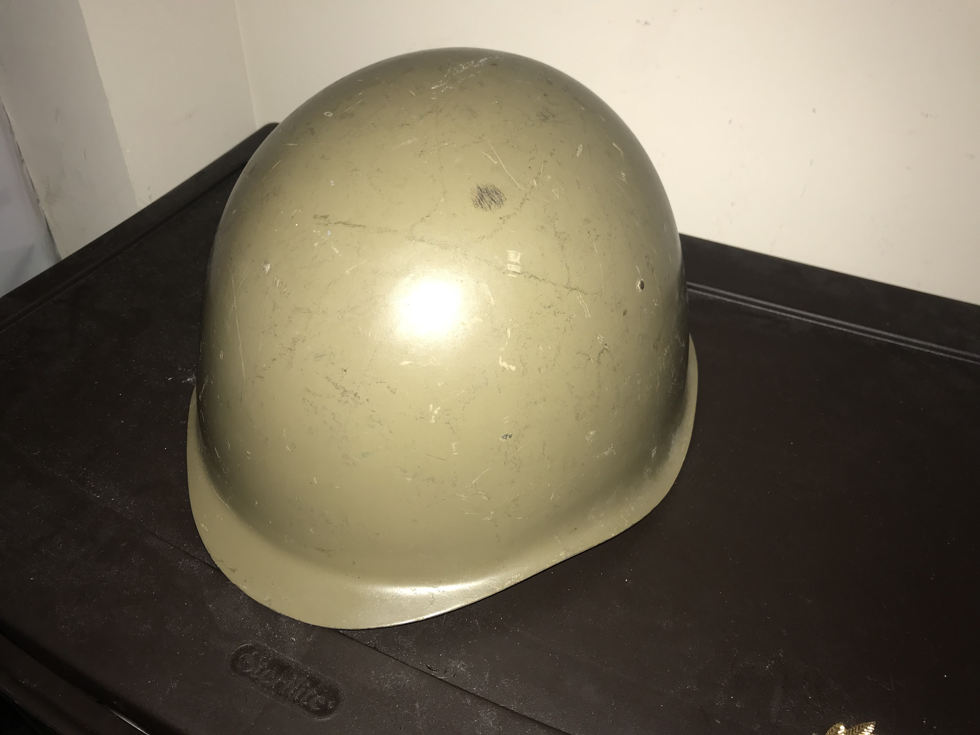 This is an example of a Czech Vz. 53/80